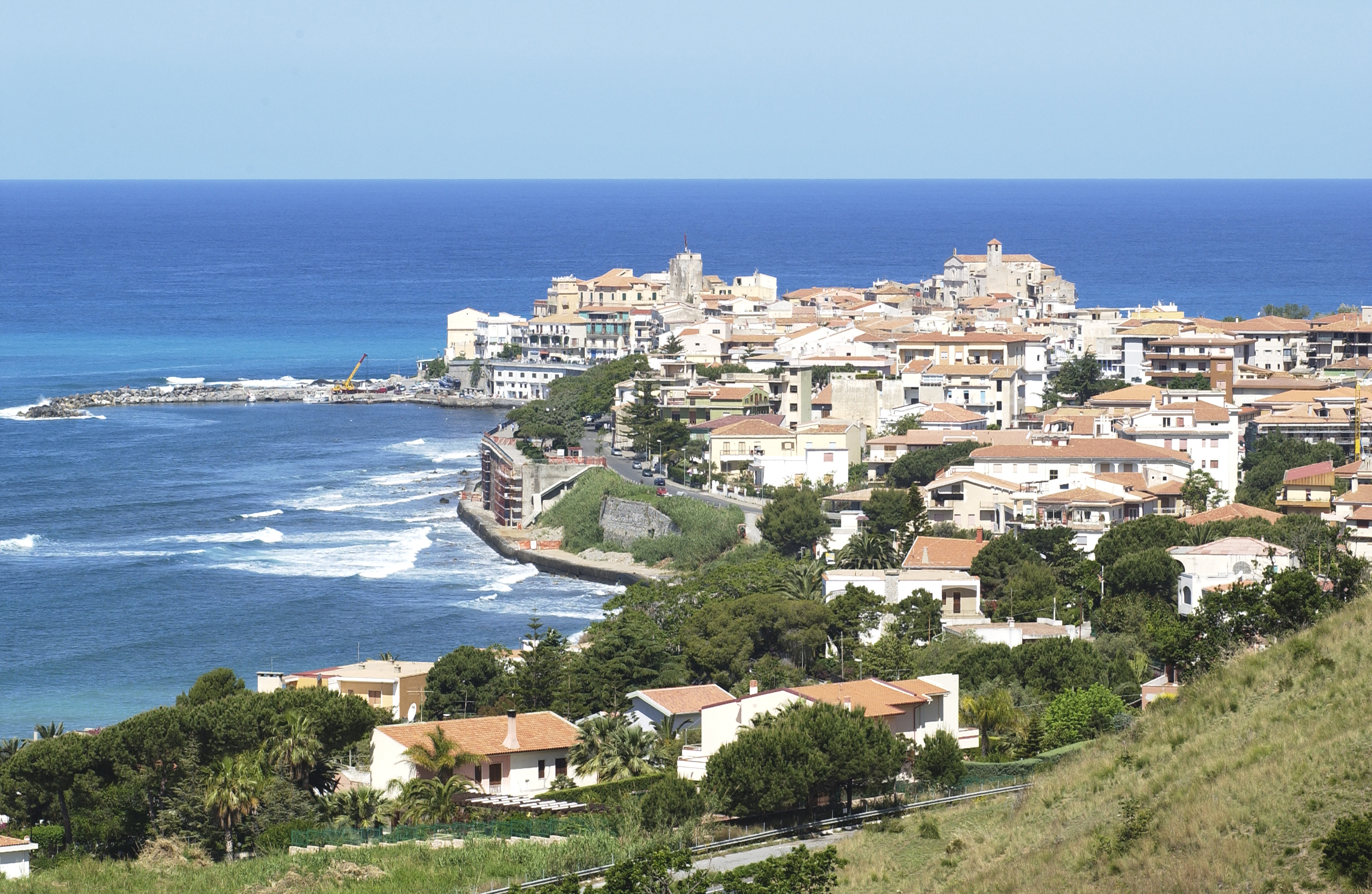 landscape of Diamante, Calabria, Italy.